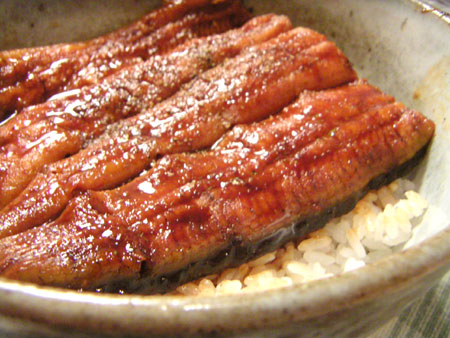 Bowl of rice topped with broiled eel (unadon, 鰻丼).